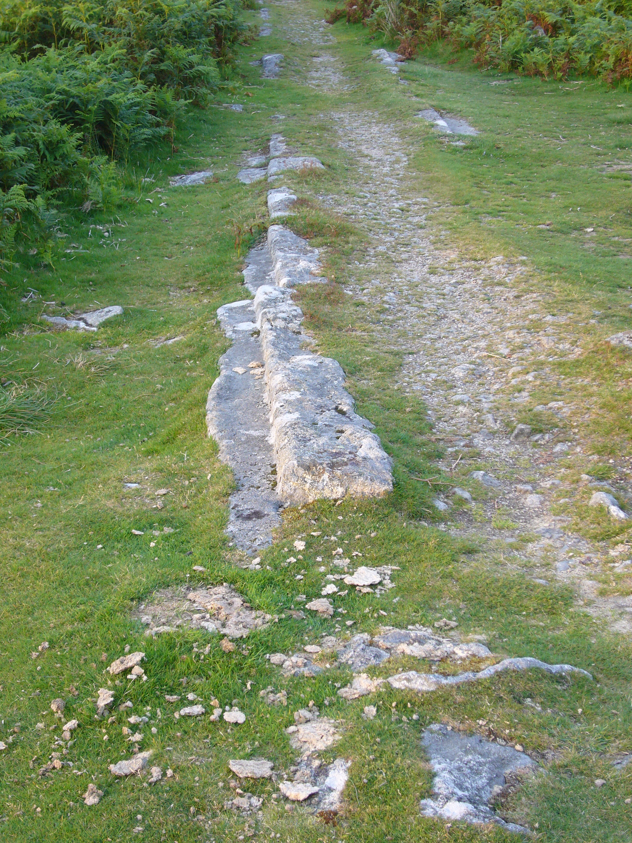 Detail of granite "rails" on the Haytor tramway (Dartmoor)